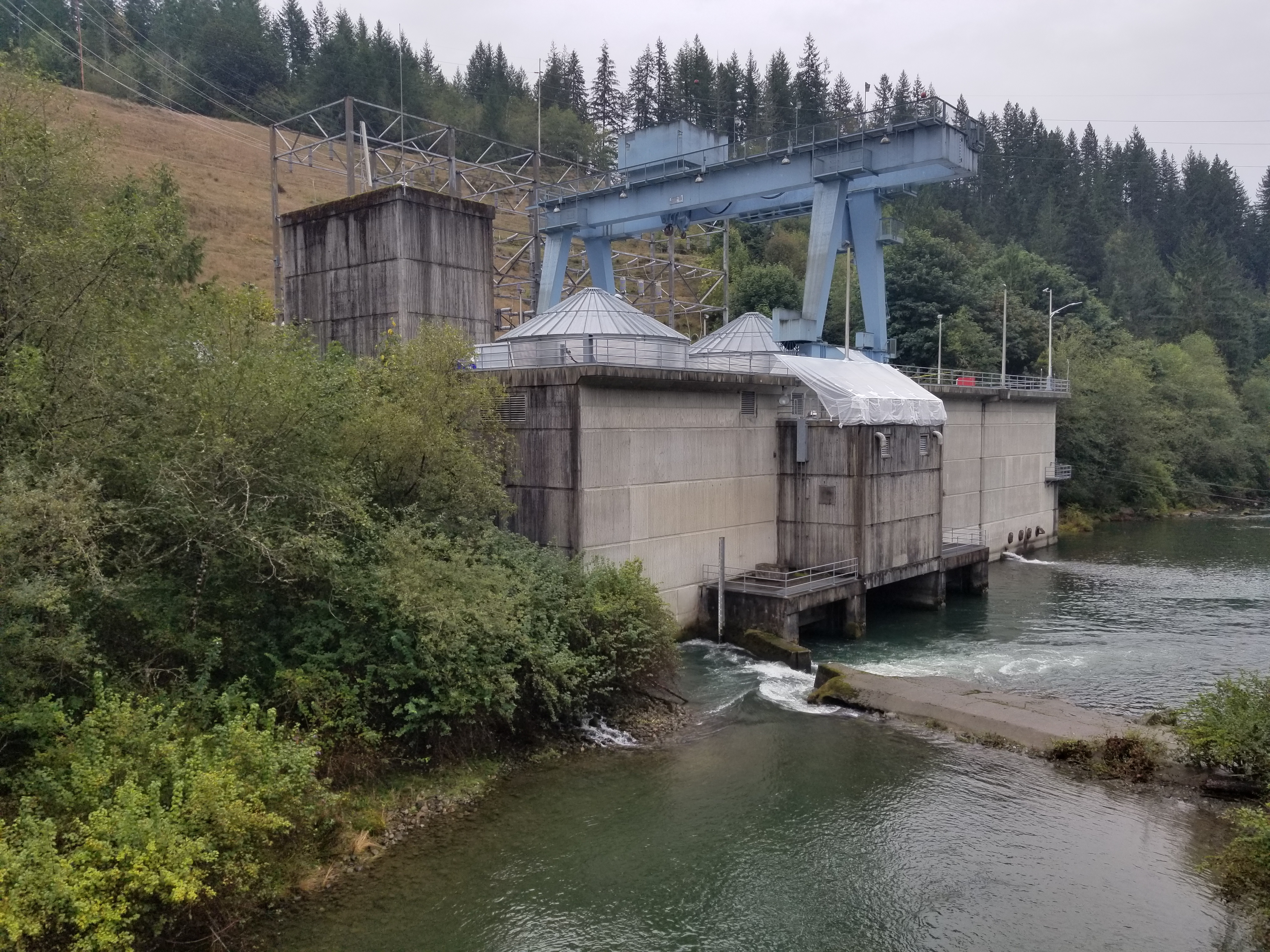 The powerhouse and blue gantry-crane generator-lift of the Jackson Hydroelectric powerhouse. To the right is the powerhouse out-flow back into the Sultan river.